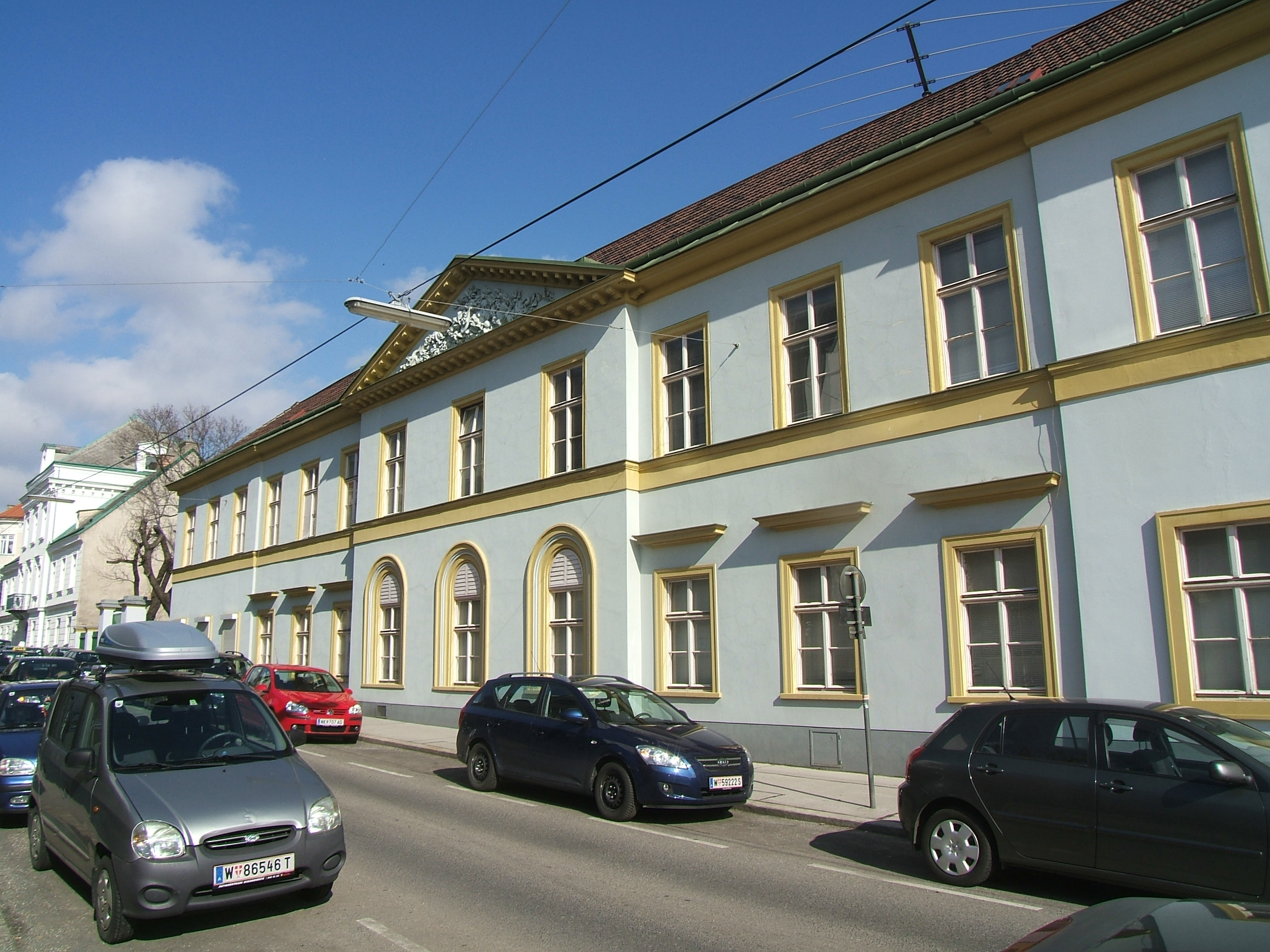 Palais Zich in Vienna 14th district Beckmanngasse 10, Embassy of the Democratic People´s Republic of Korea